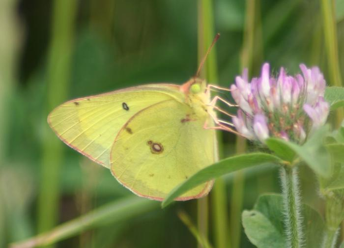 Male Clouded Sulphur (Colias philodice) on Red Clover (Trifolium pratense)